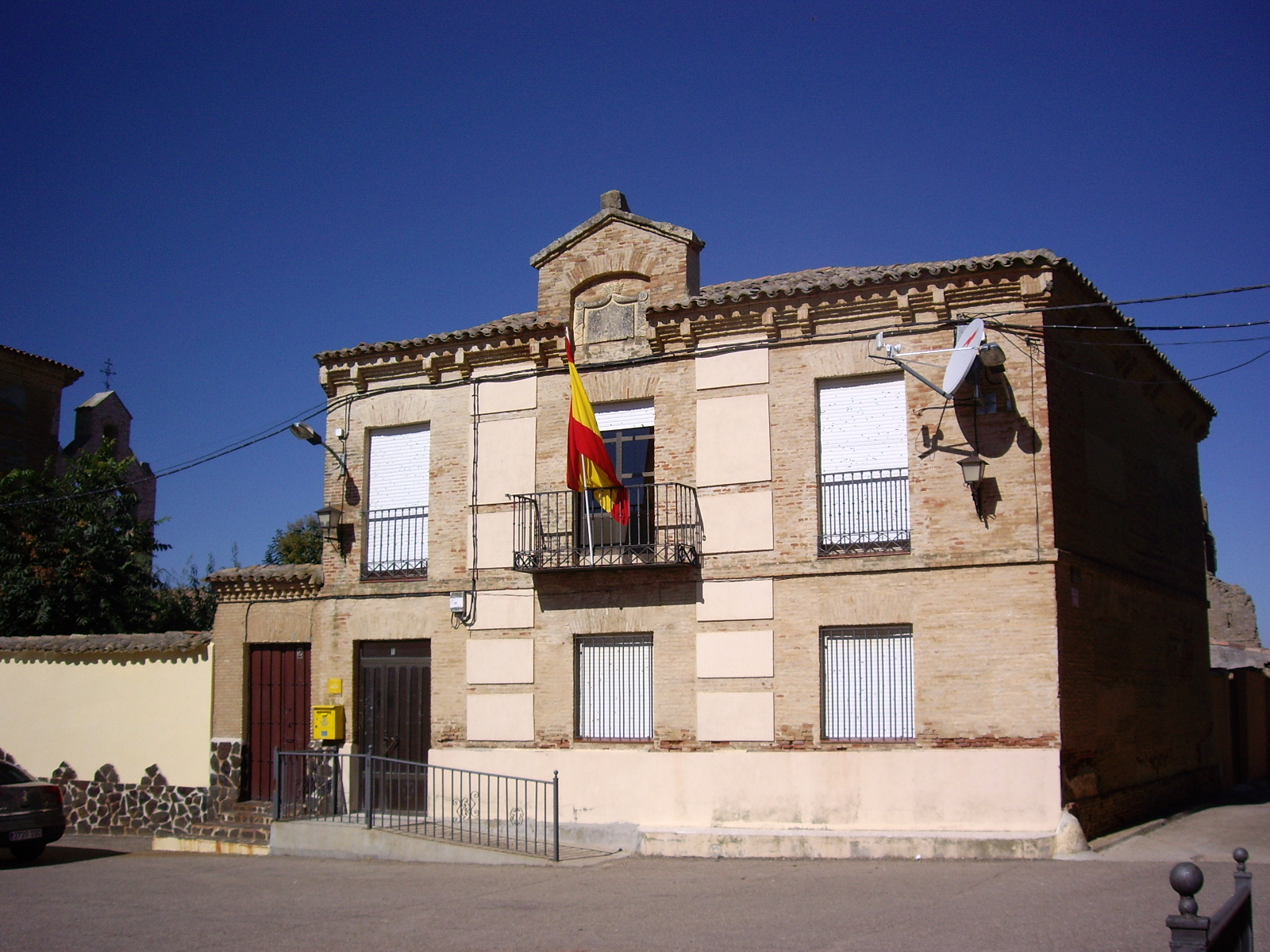 Villacarralon town hall